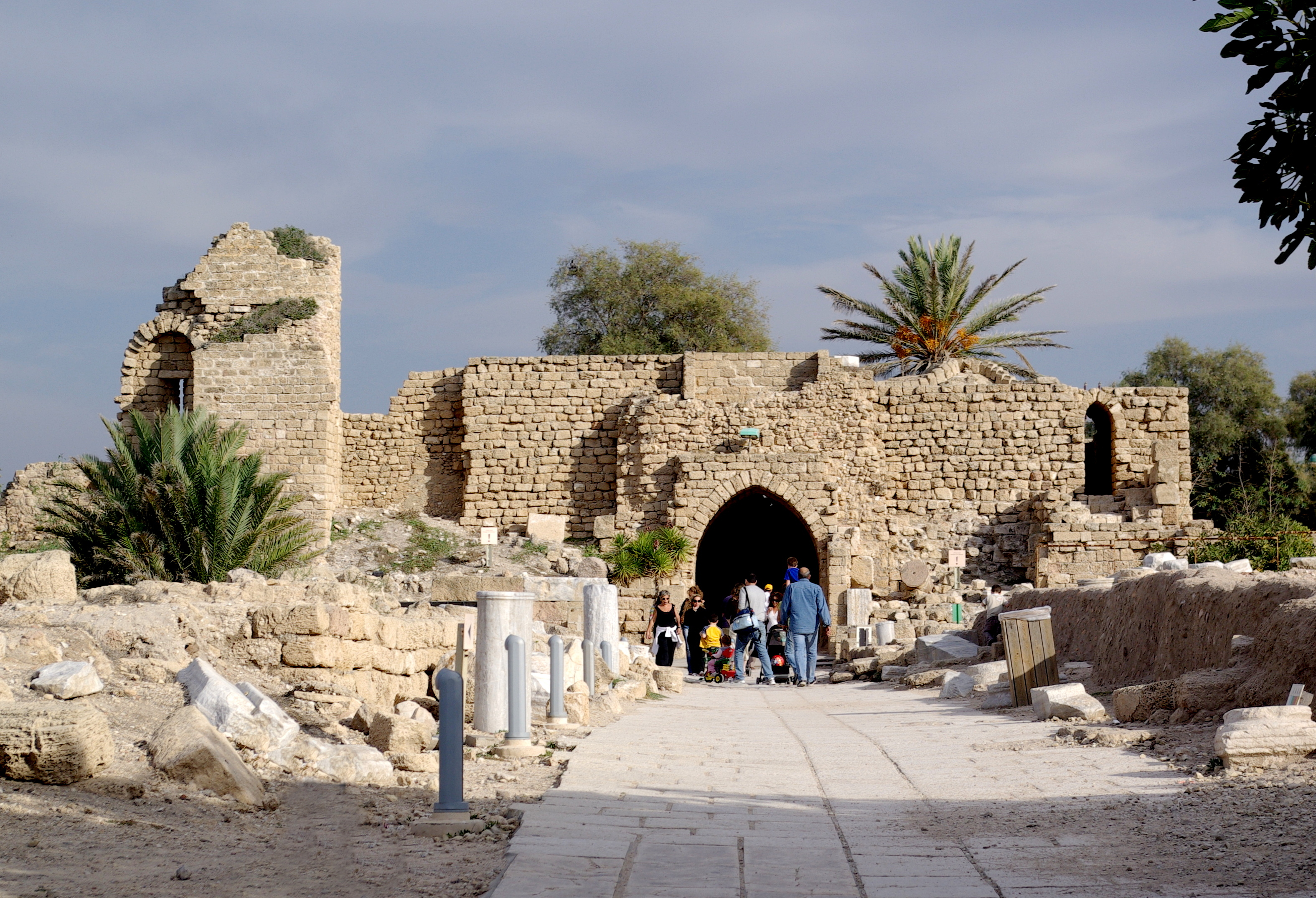 Caesarea maritima, city gate of the crusaders